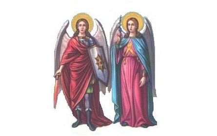 The flag of Himara, autonomous district, during the Ottoman period, depicting the Archangels (Taxiarches) Michael and Gabriel.